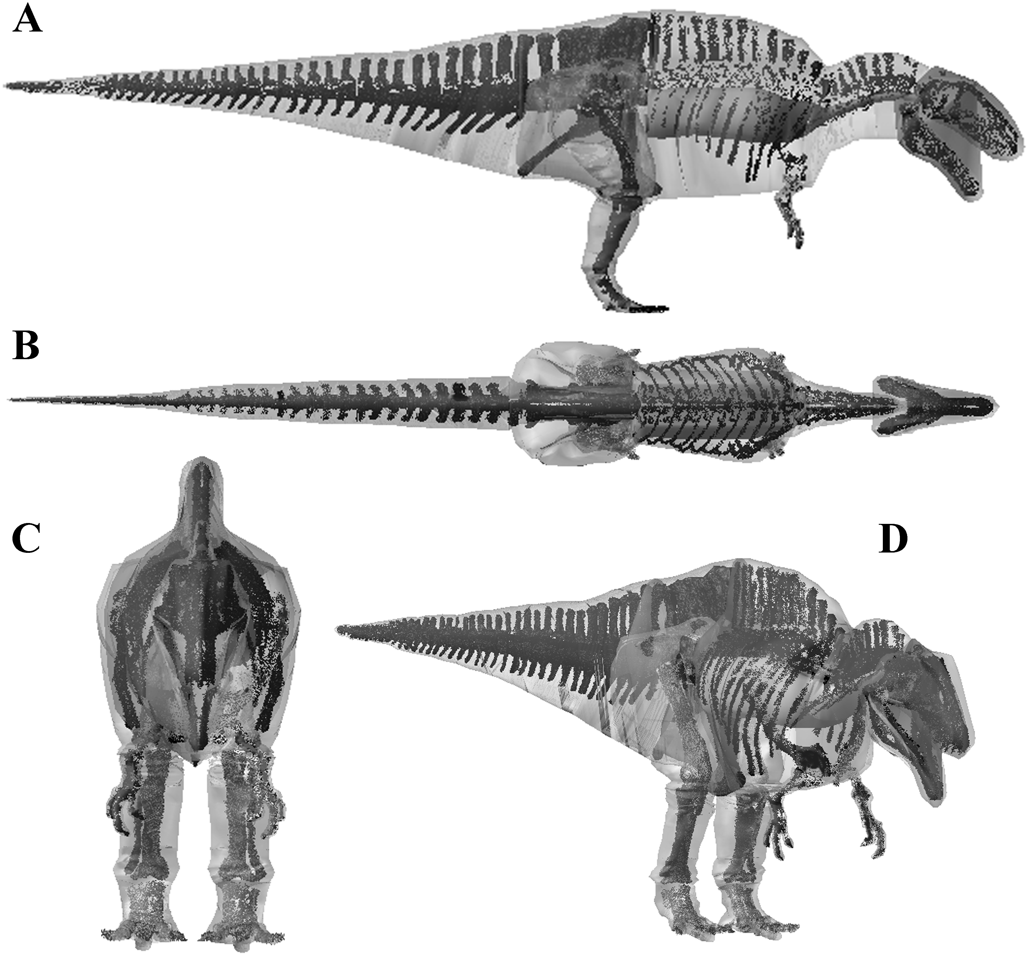 Best estimate reconstruction of Acrocanthosaurus atokensis NCSM 14345 in (A) right lateral, (B) dorsal, (C) cranial and (D) oblique right craniolateral views (not to scale).